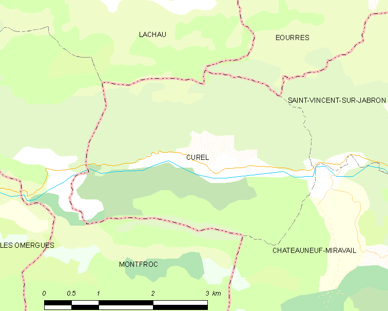 Map commune FR insee code 04067.png Légende